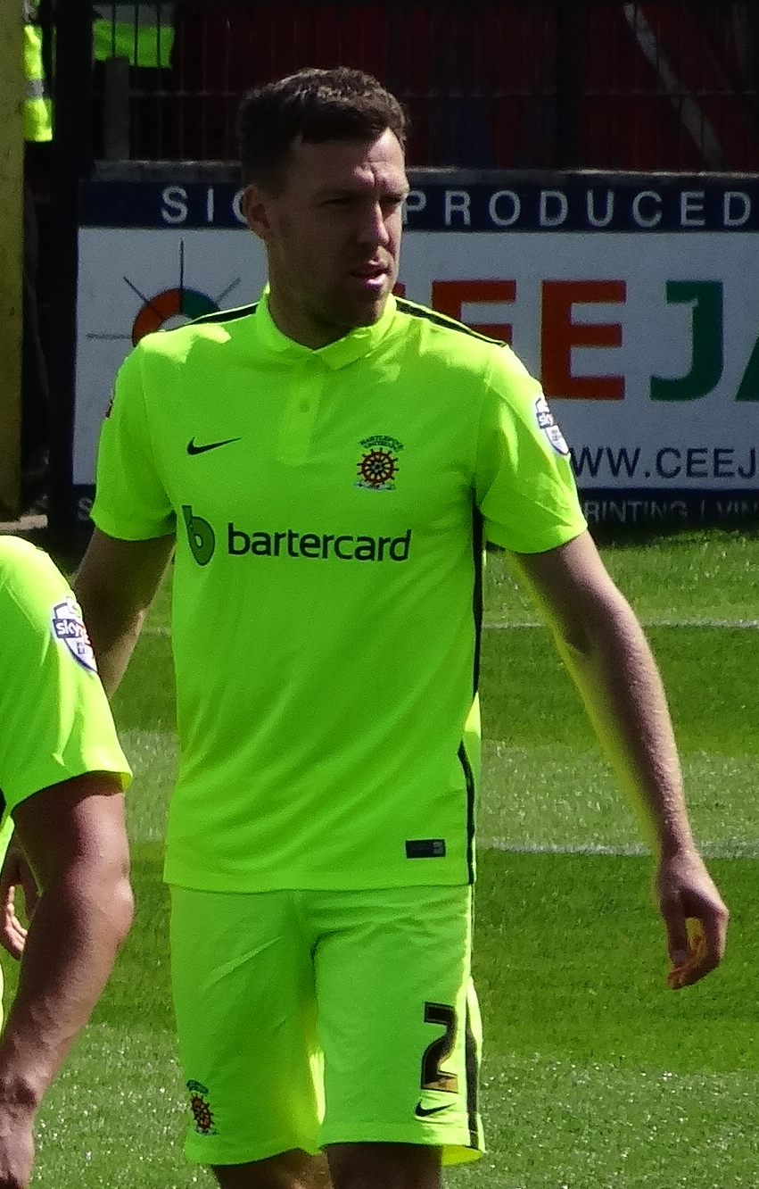 Carl Magnay playing for Hartlepool United against York City at Bootham Crescent, York on 15 August 2015